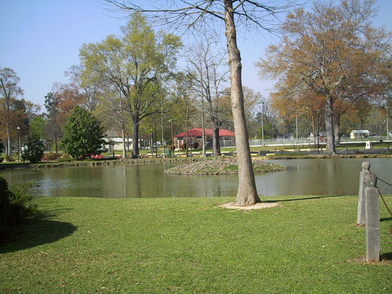 Main Lake in Highland Park